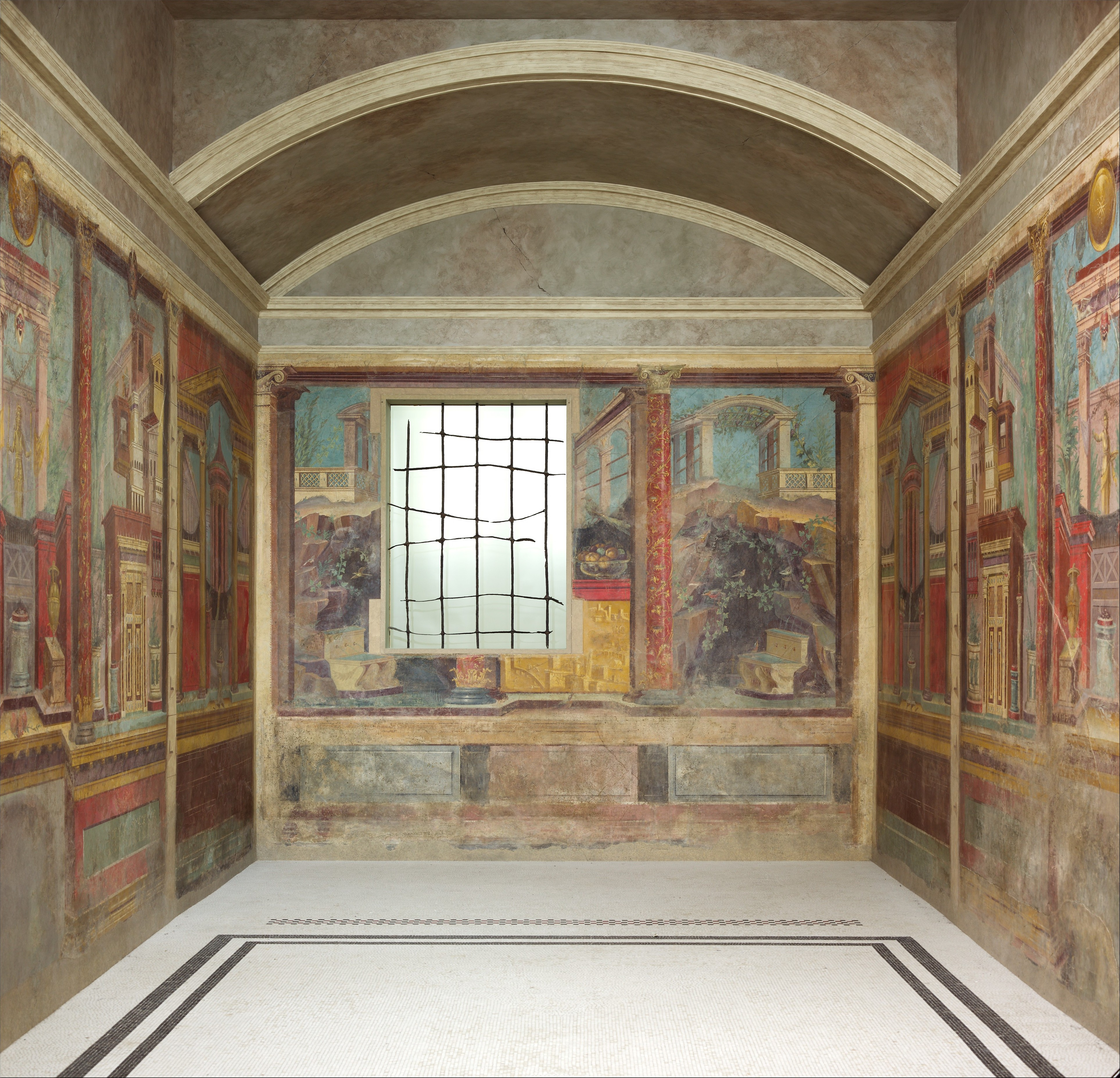 Roman; Cubiculum (bedroom) from the Villa of P. Fannius Synistor; Miscellaneous-Paintings